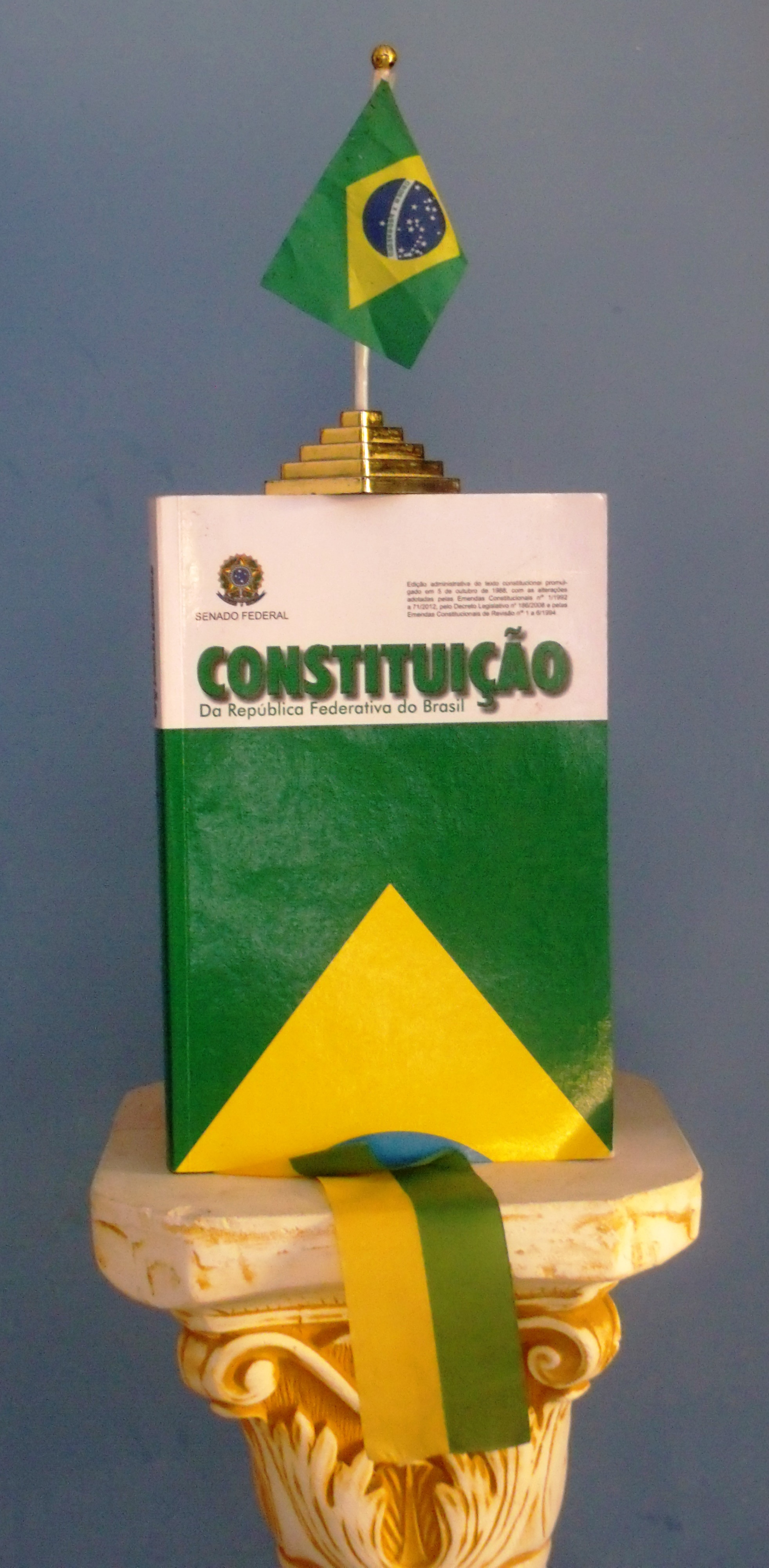 Brazilian Constitution of 1988